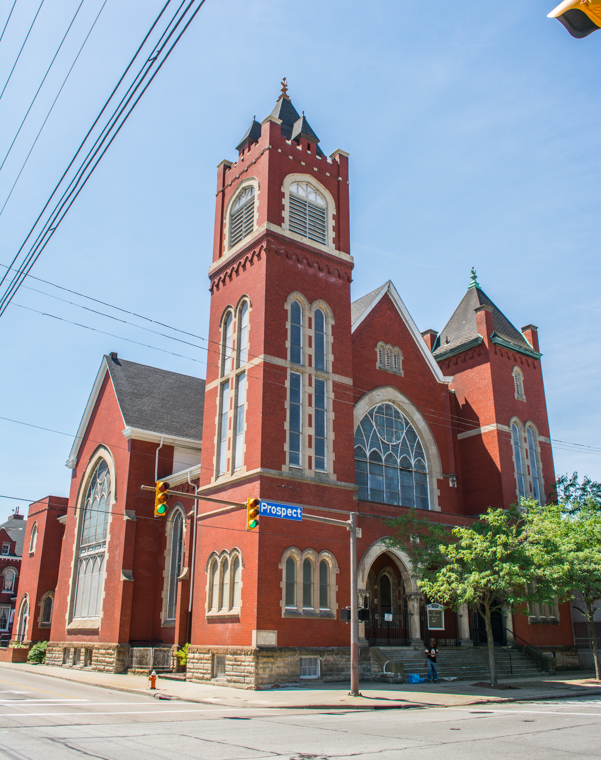 Northeast corner of Zion Lutheran Church located at 2062 E. 30th Street in Cleveland, Ohio, in the United States. This structure was added to the National Register of Historic Places on November 1, 1984.